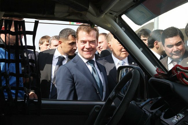 TURKMENBASHI, TURKMENISTAN. At the ceremony marking the final stage of the Silk Way Rally Dakar Series 2009.